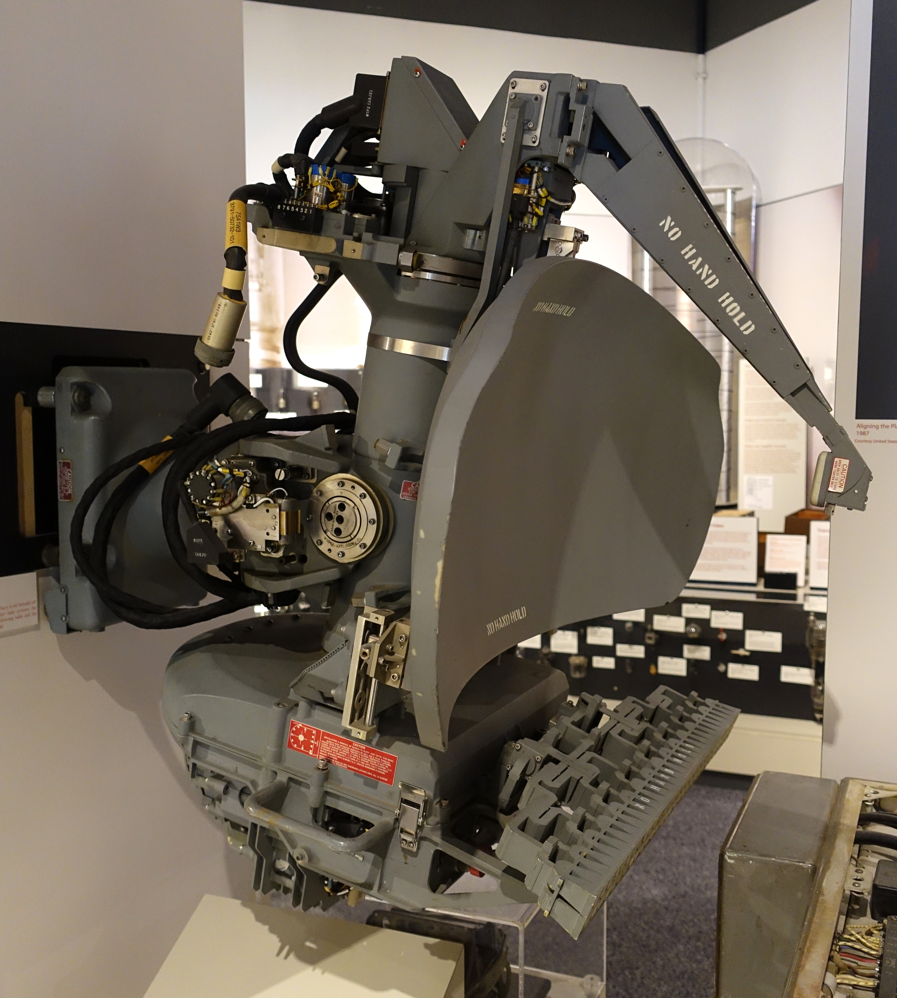 Exhibit in the National Electronics Museum, 1745 West Nursery Road, Linthicum, Maryland, USA. All items in this museum are unclassified. The museum permitted photography without restriction.